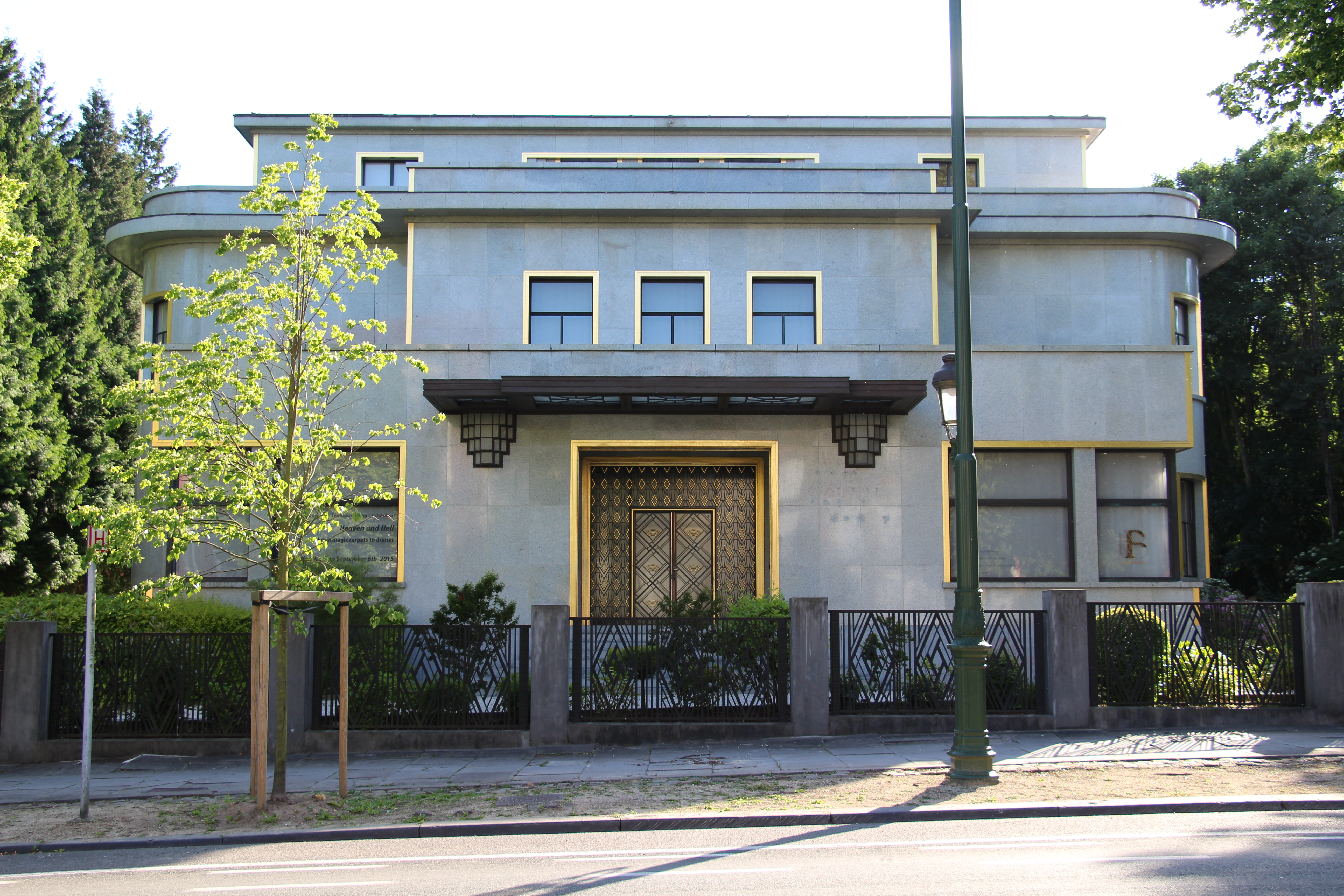 Ixelles. Avenue Franklin Roosevelt Villa Empain. Arch. Michel Polak 1931-34. In 2008, the Fondation Boghossian acquired the Villa Empain and initiated an extensive renovation program. Inaugurated in 2010, the villa is a cultural centre and hosts art exhibitions, concerts and conferences.